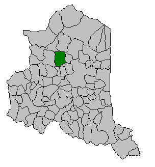 Location of Baixàs